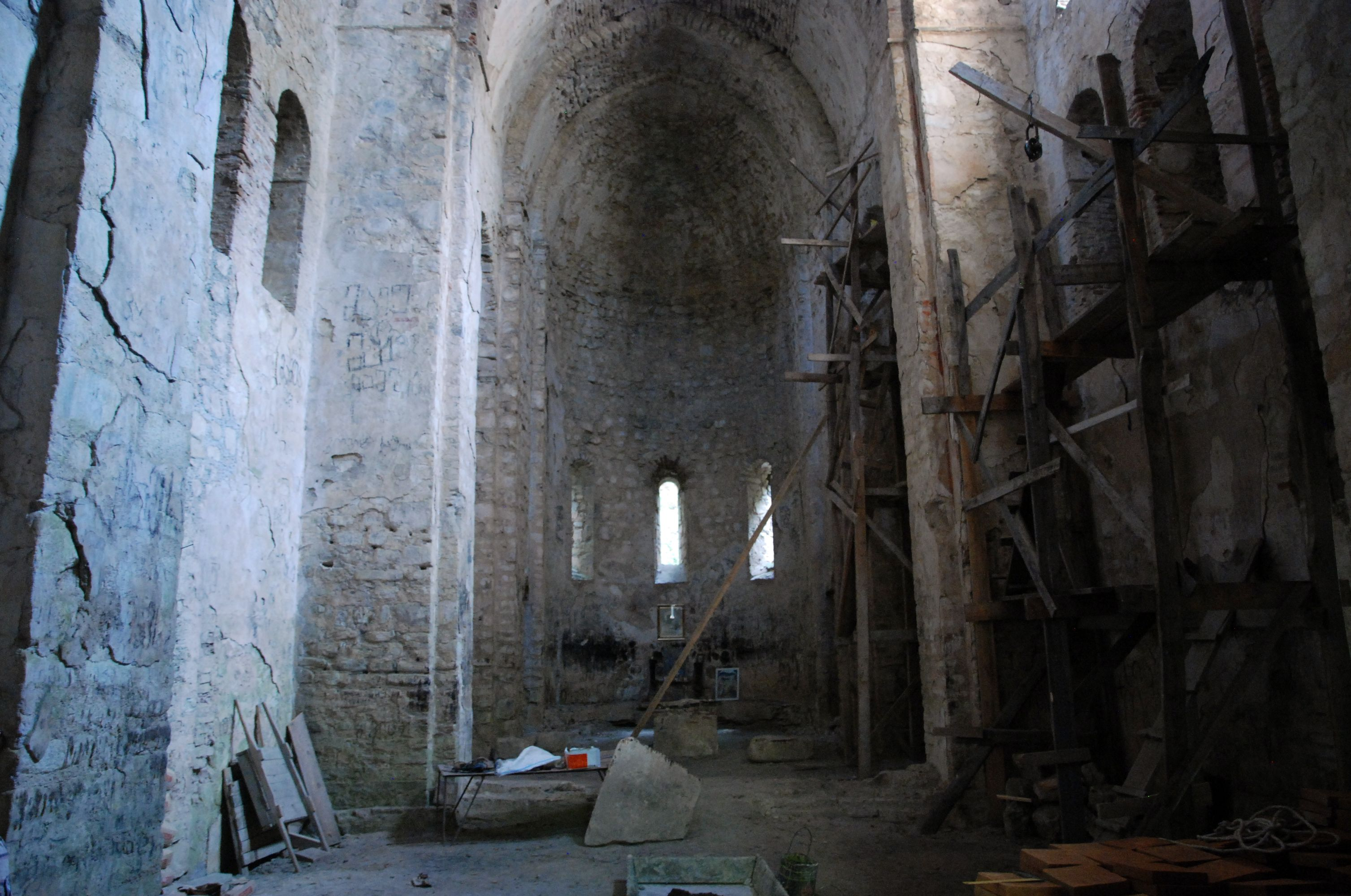 Vachnadziani Kvelatsminda, monastery church near Gurjaani